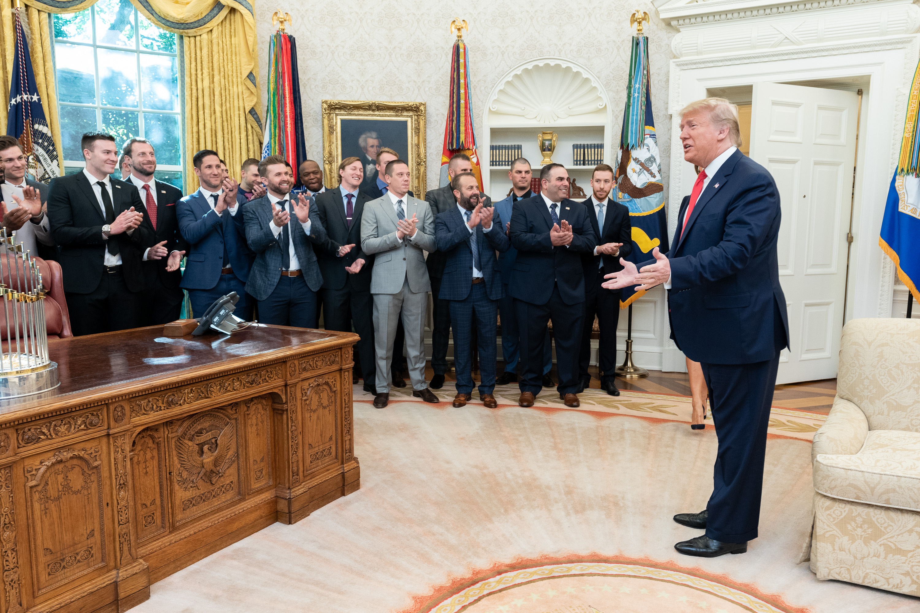 President Donald J. Trump welcomes the 2019 World Series Champion Washington Nationals Monday, Nov. 4, 2019, to the Oval Office of the White House. (Official White House Photo by Shealah Craighead)